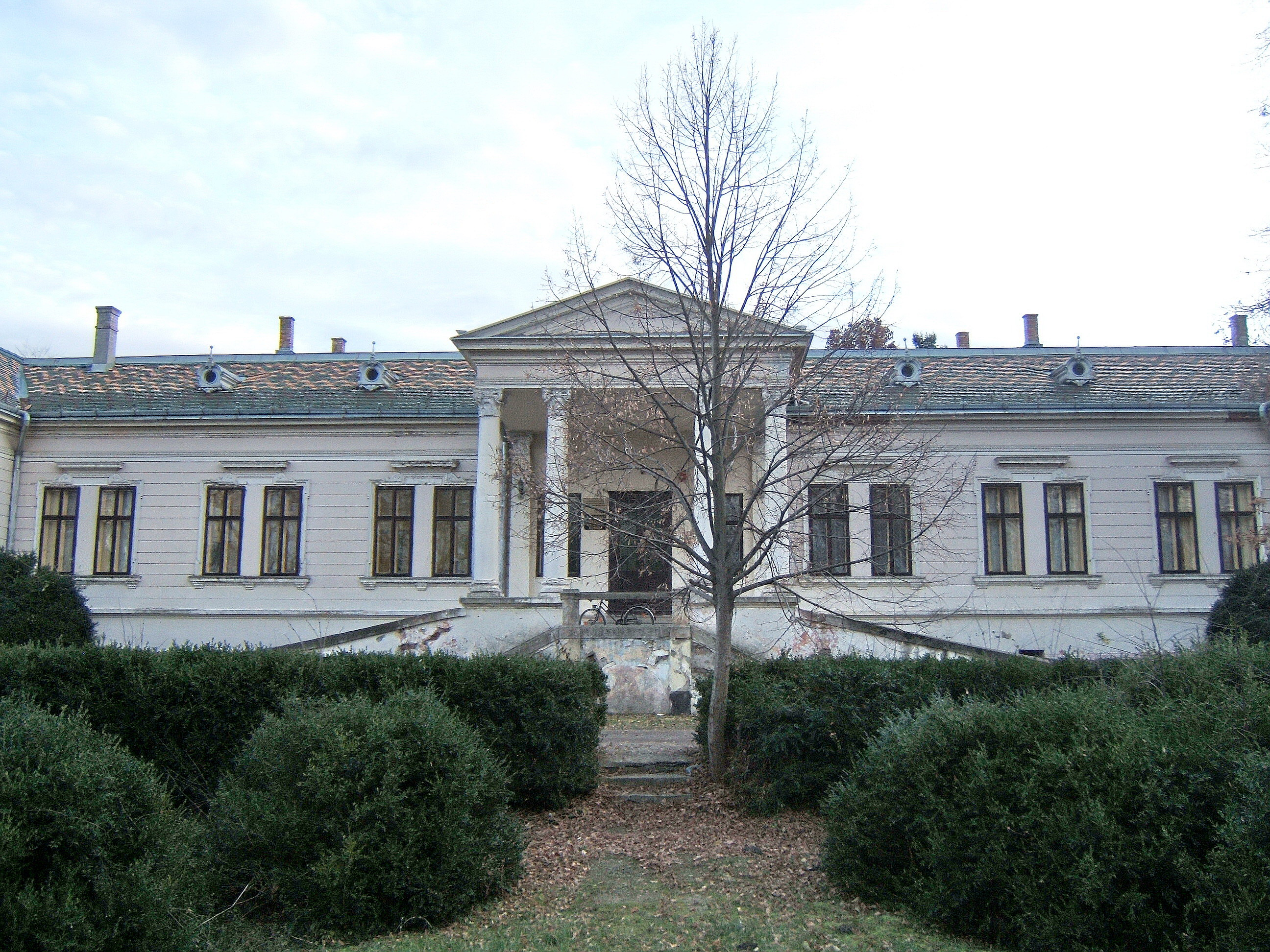 Dániel Castle in Konak - front facade